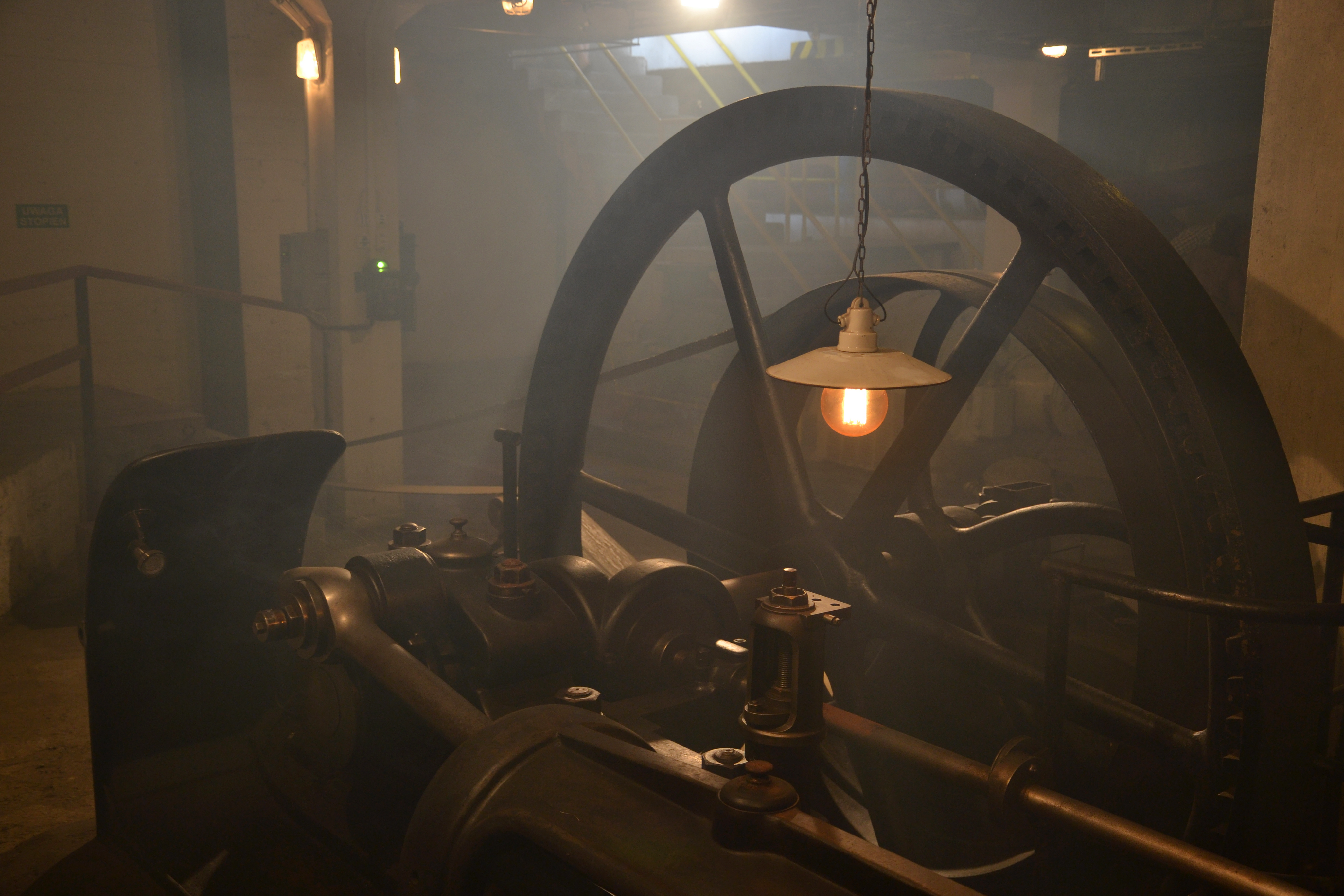 Steam engine in Karchowice (Karchowitz), Upper Silesia